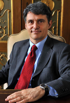 Andrea Beltratti, as 2011 Chairman of the Management Board of Intesa Sanpaolo